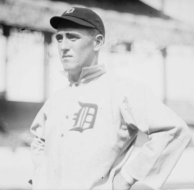 Donie Bush, Detroit AL, at Polo Grounds, NY